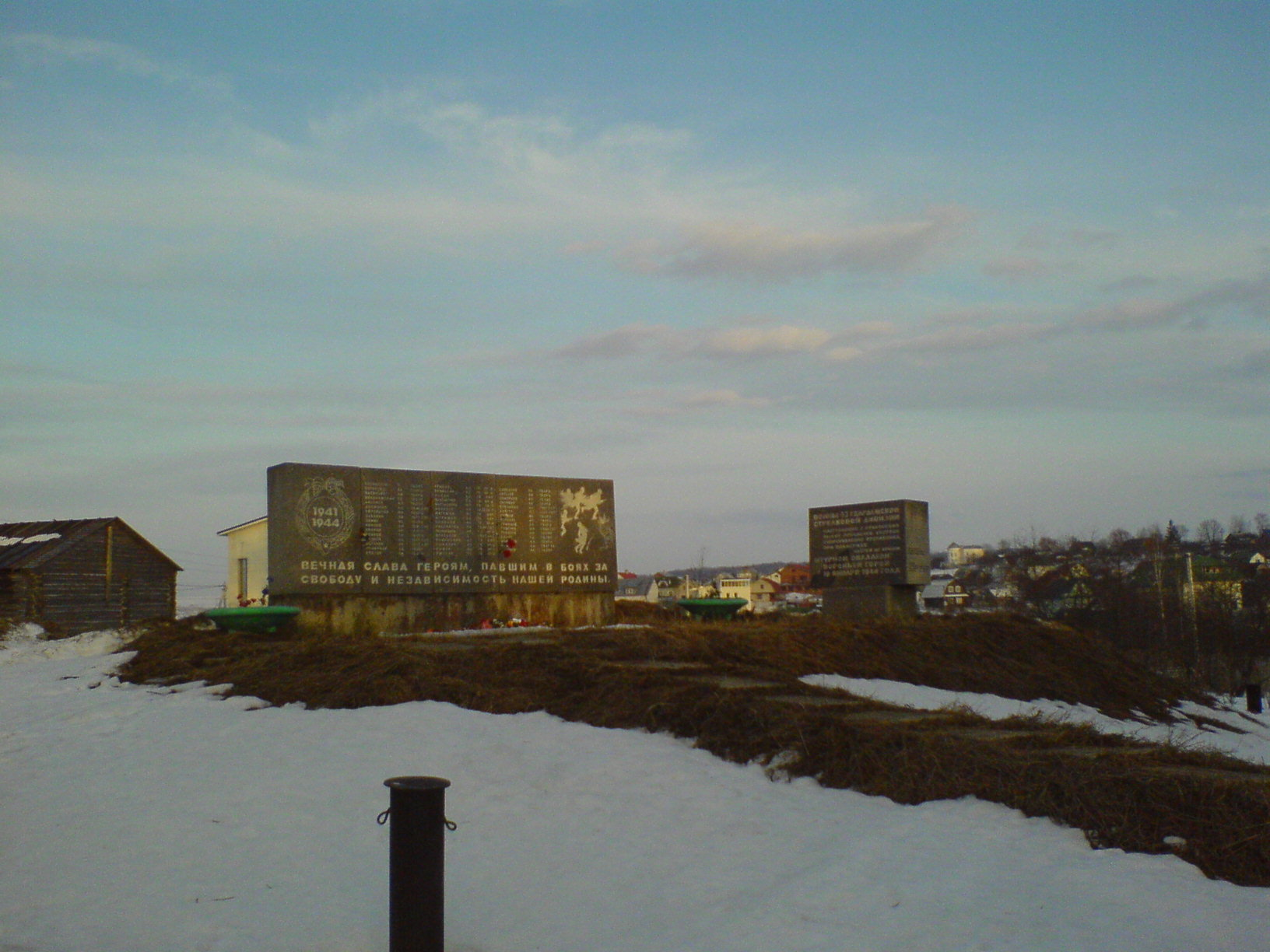 Monument_to_the_dead_in_the_fighting_(p_Mozhajskij) near Saint Petersburg, Russia